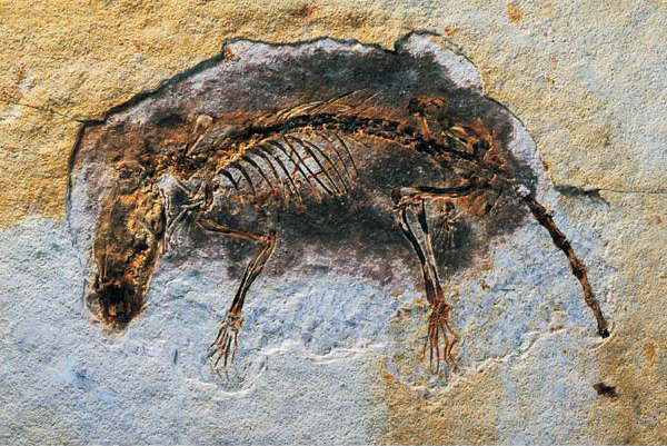 Early eutherian Eomaia scansoria Ji Q., Luo, Yuan, Wible, Hang, and Georgi, 2002. (CAGS 01−IG−1).